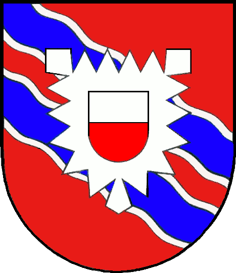 Coat of arms of the Stadt (town) Friedrichstadt in Schleswig-Holstein, Germany.